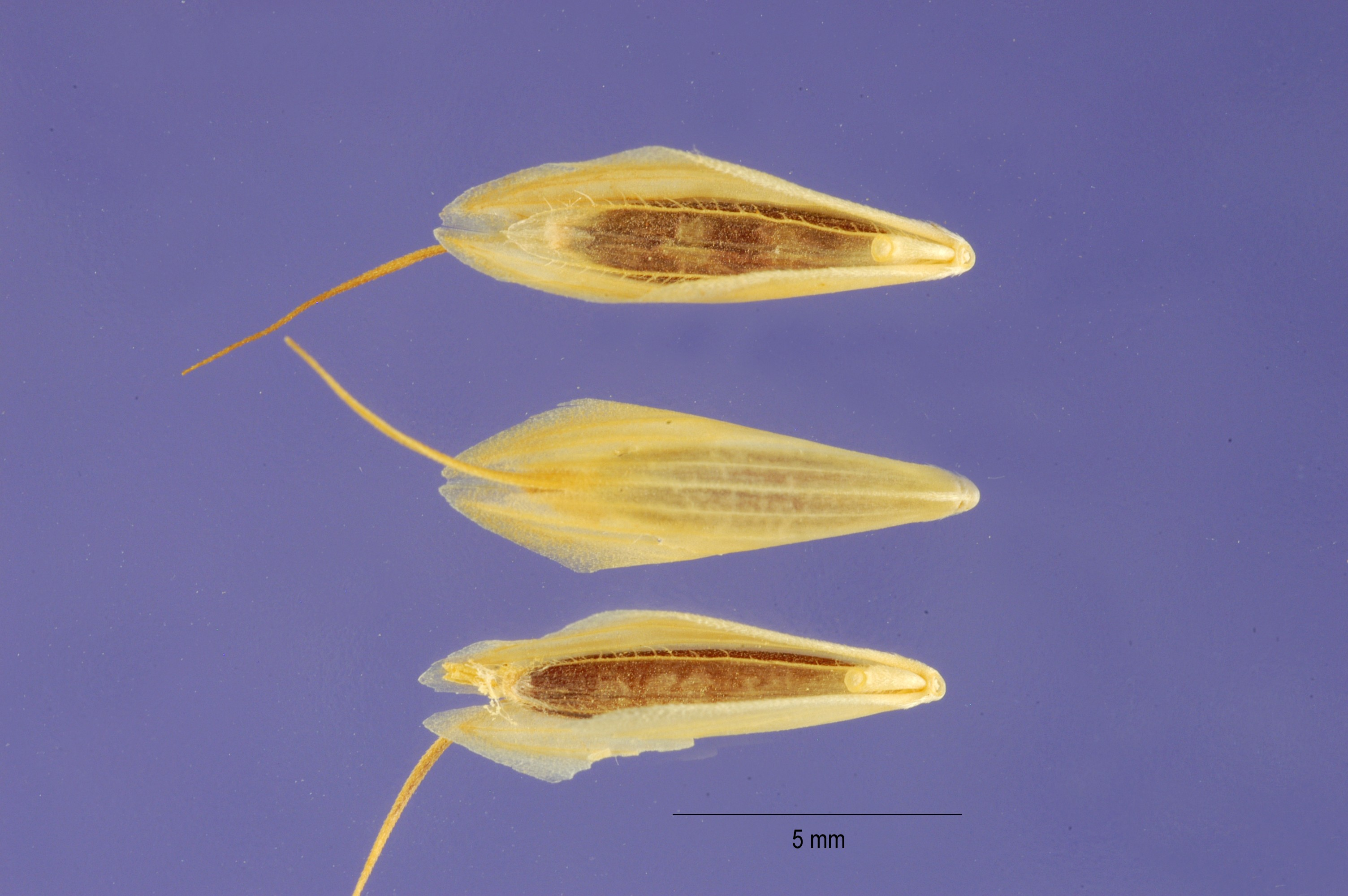 Bromus squarrosus from Jose Hernandez, Provided by ARS Systematic Botany and Mycology Laboratory. Turkey, Kirsehir